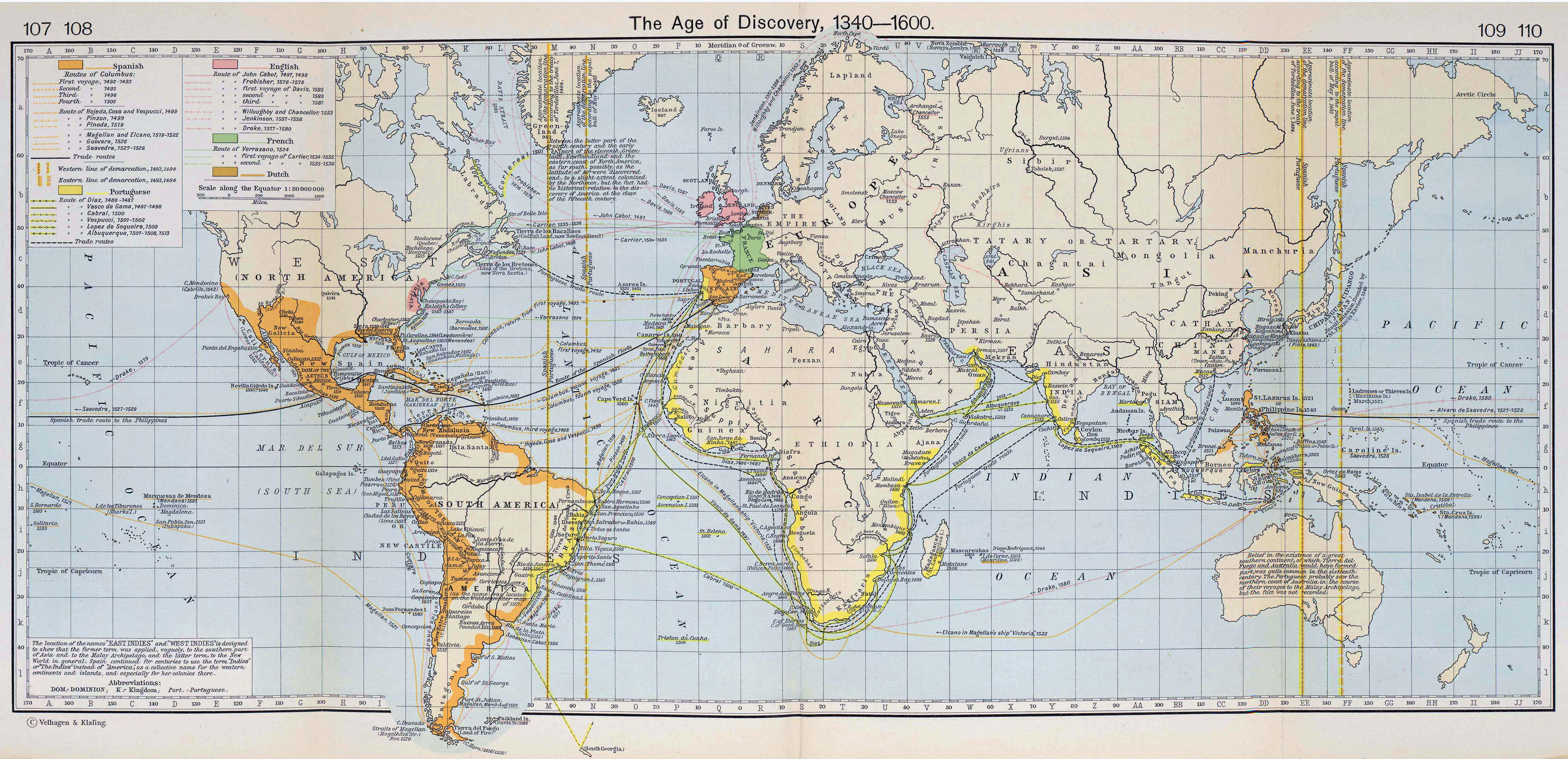 A map showing the explorations of Europeans in the Age of Discovery (1340-1600).